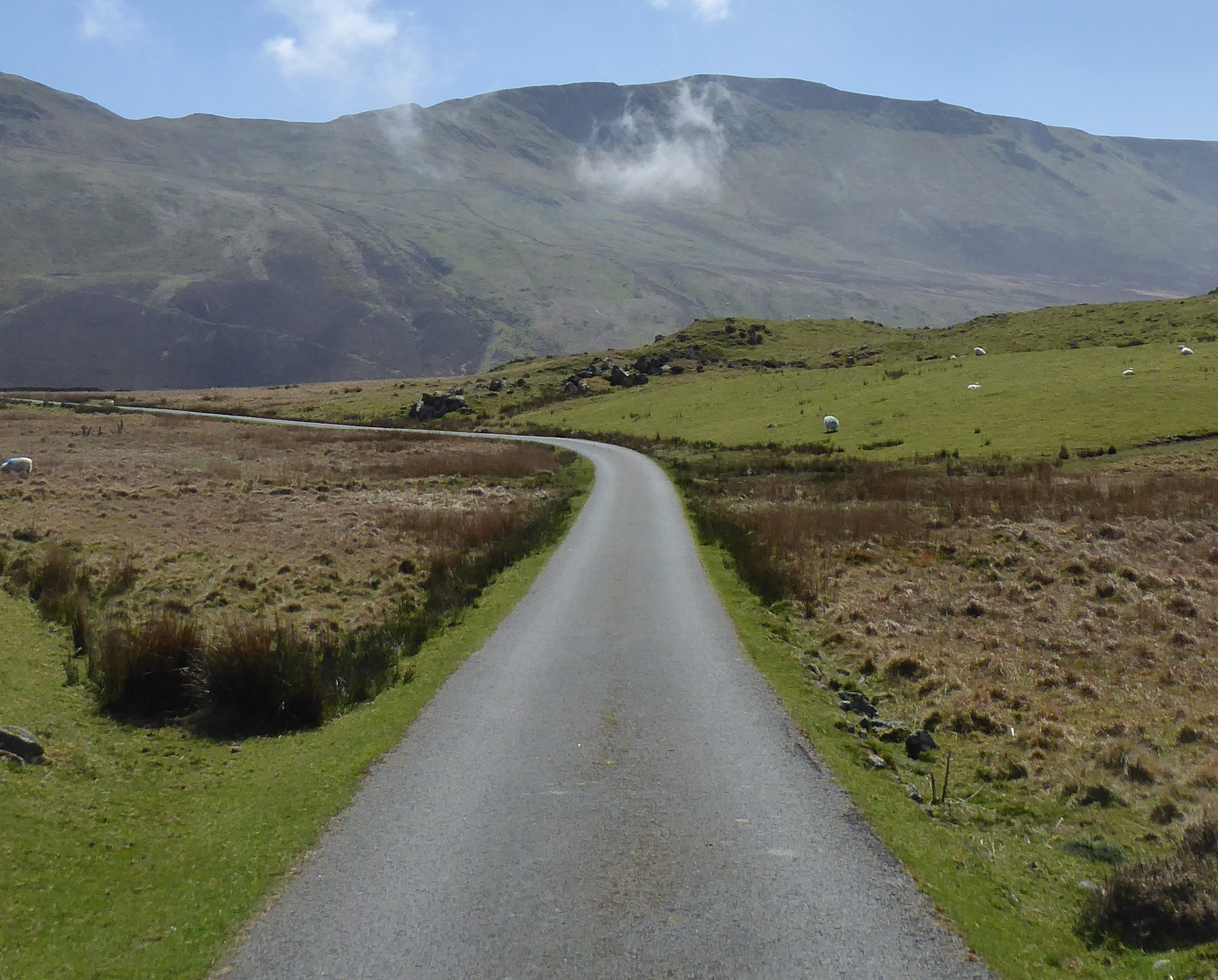 Llynnau Cregennen, near cader Idris and Arthog, Gwynedd, Wales.